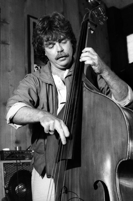 Ron McClure with Quest (Dave Liebman, Richie Beirach & Billy Hart) at Bach Dancing & Dynamite Society, Half Moon Bay CA 6/21/87 Photo by Brian McMillen /